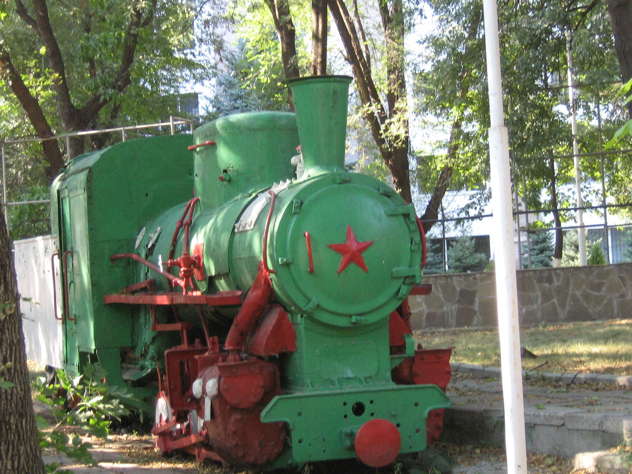 Russian narrow gauge locomotive Kp4-100 (in fact Kp4-483), Rostov-on-Don